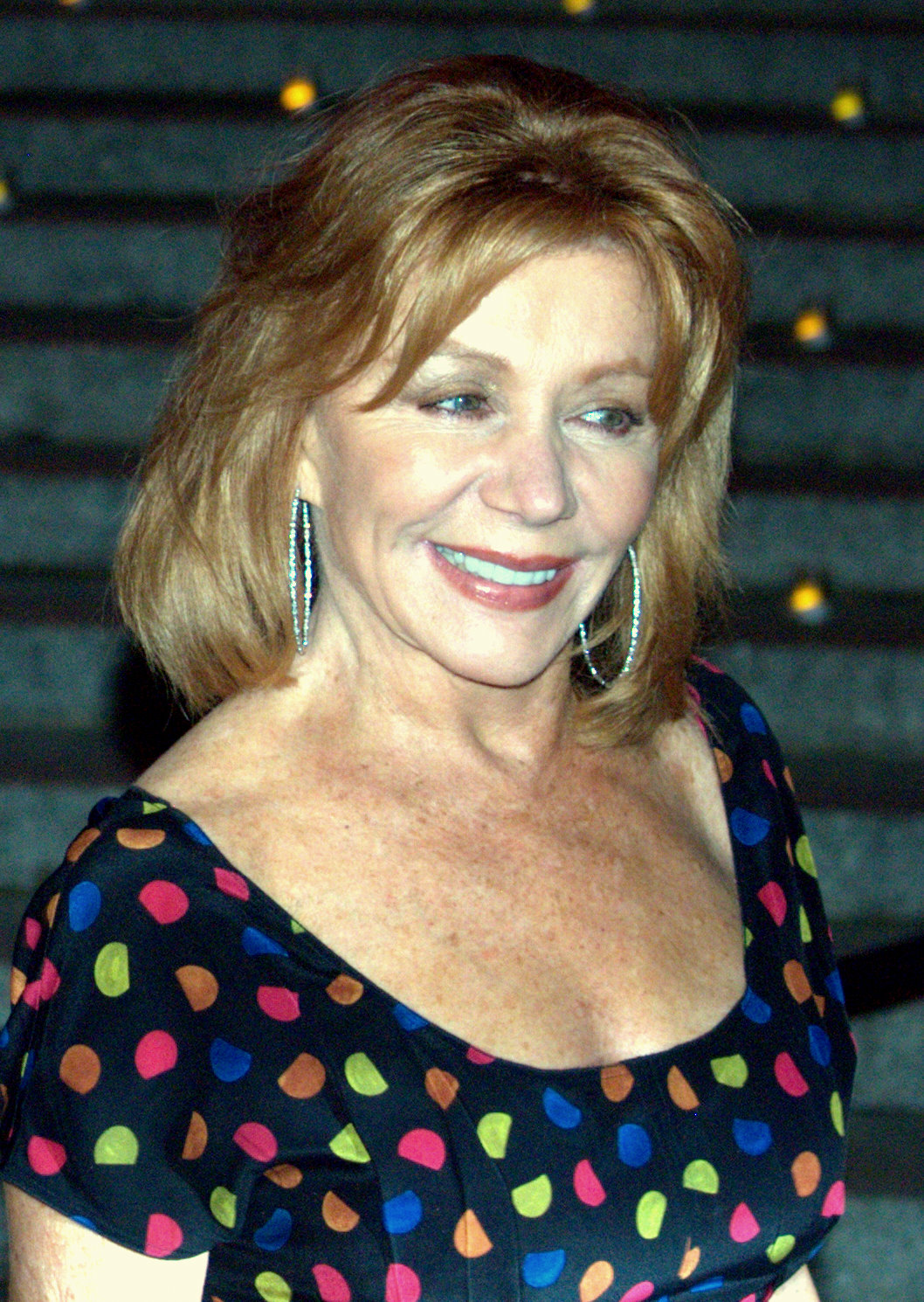 Joy Philbin at the 2009 Tribeca Film Festival celebration hosted by Vanity Fair.